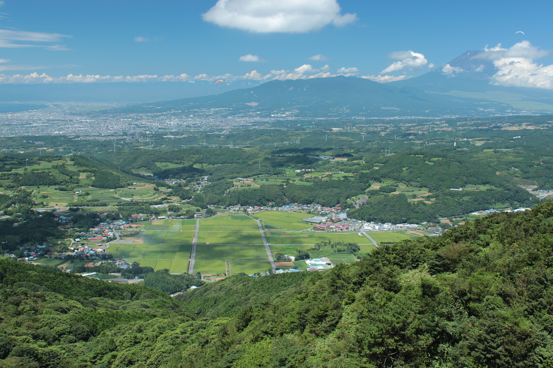 The NE part of Shizuoka prefecture. Tanna Basin in the foreground. Mount Ashitaka and Mount Fuji in the background.